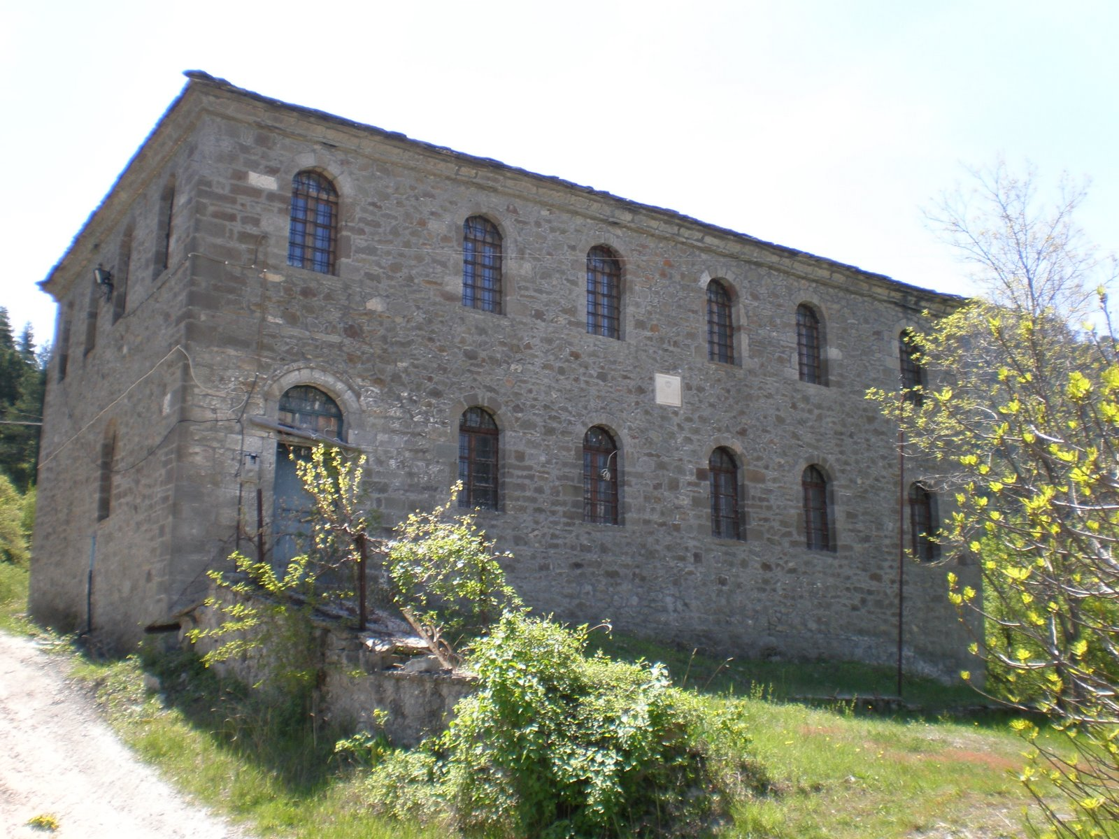 The old school in Gannadio Village in Konitsa, Epirus , Greece